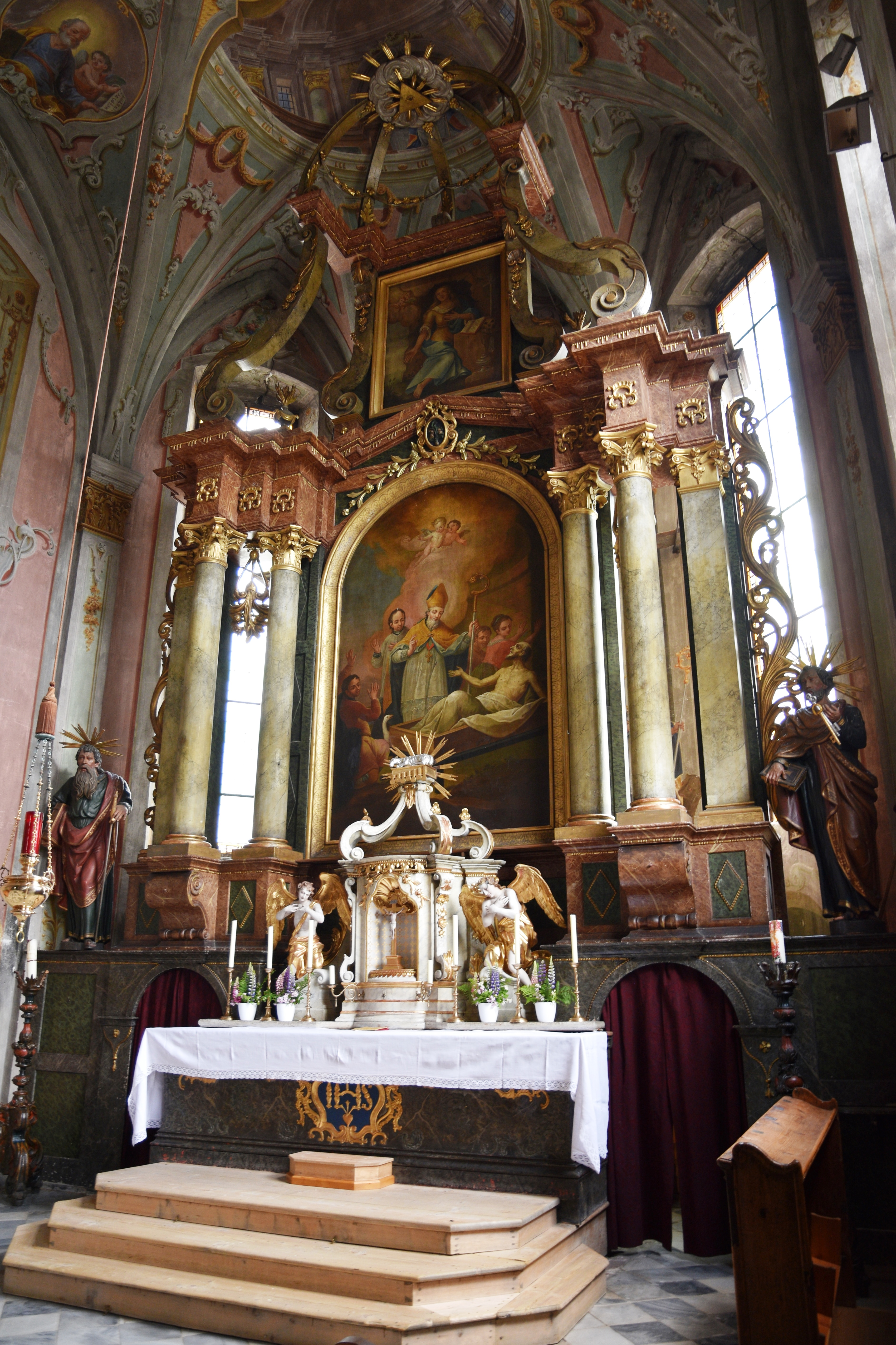 Church St.Martin in Oberwölz Interior